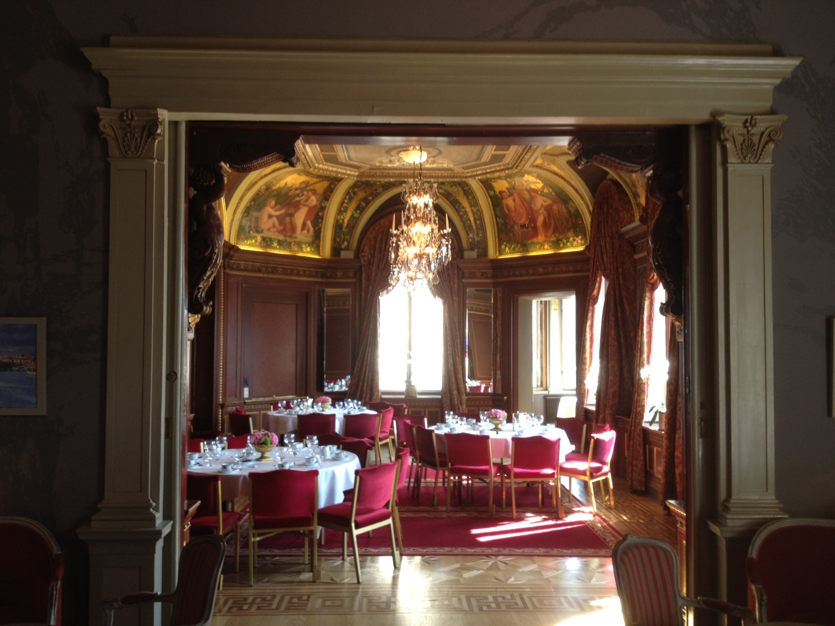 Bolinderska huset Stockholm; view into the Mårten Eskils Winge room